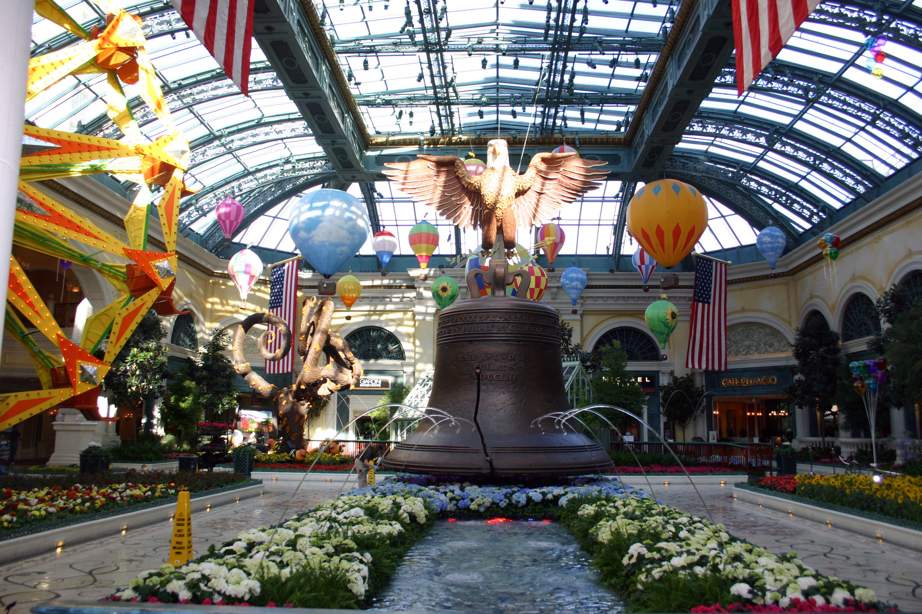 The Summer 2011 display in the conservatory at the Bellagio.